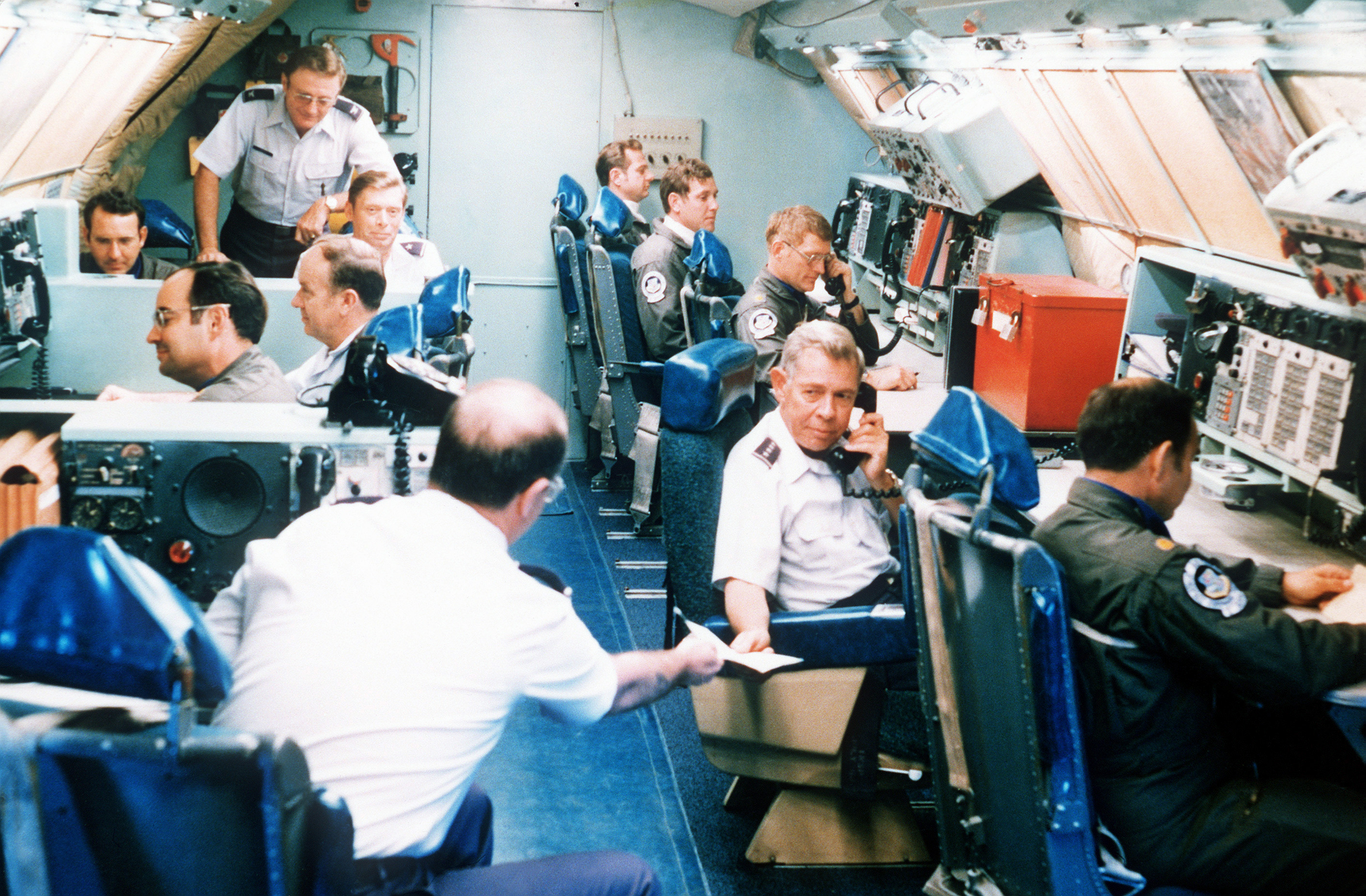 GEN Richard A. Ellis, Strategic Air Command, commander in chief, handles top level communications in his airborne command post Boeing EC-135 (Looking Glass), during Exercise Global Shield '79. Photographer's Name: SSGT John Marine Location: NORTHWESTERN Date Shot: 12/1/1979 VIRIN: DF-SC-83-04000